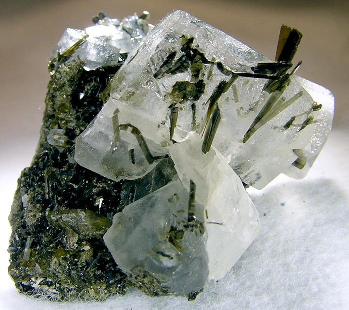 Actinolite, Calcite Locality: Alchuri (Alchori; Aschudi), Shigar Valley, Skardu District, Baltistan, Northern Areas, Pakistan (Locality at ) Sharp little sprays of actinolite crystals growing right on gemmy rhombs of calcite! All perched on a matrix covered with a bed of velvety actinolite. Elegant and unusual! 5.2 x 4.6 x 3.9 cm